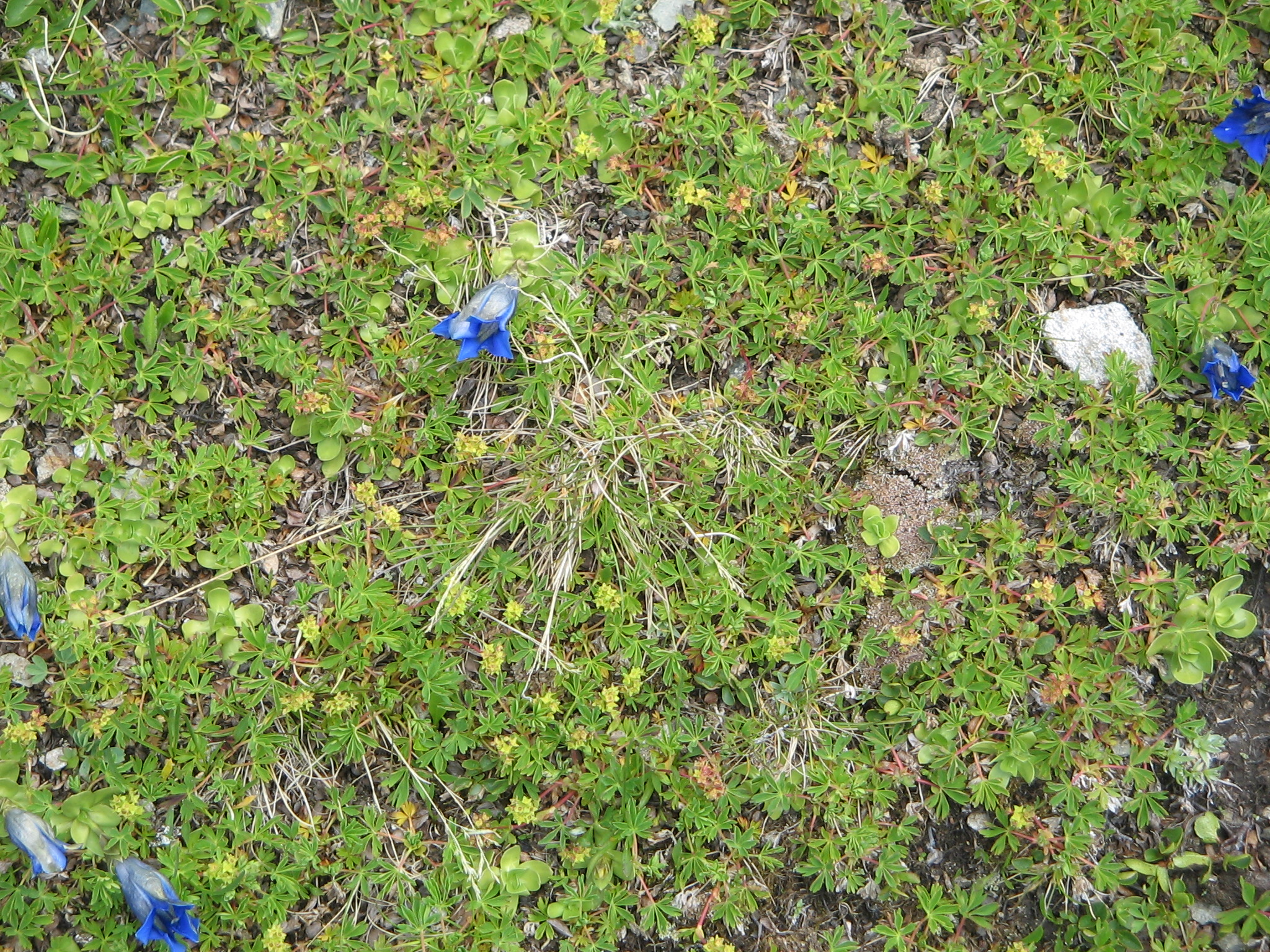 Alchemilla pentaphyllea & Gentiana alpina